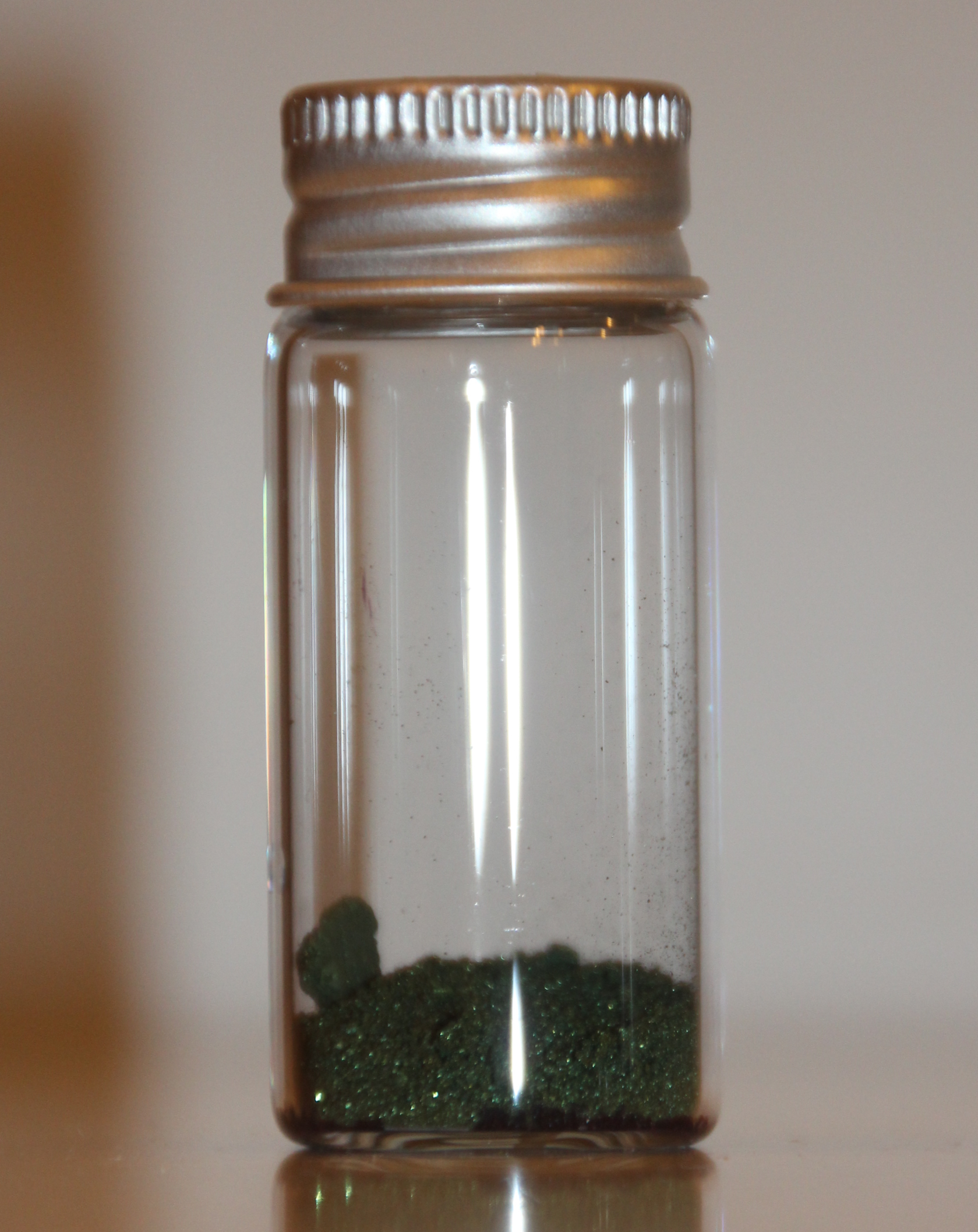 Sample of Basic Fuchsine